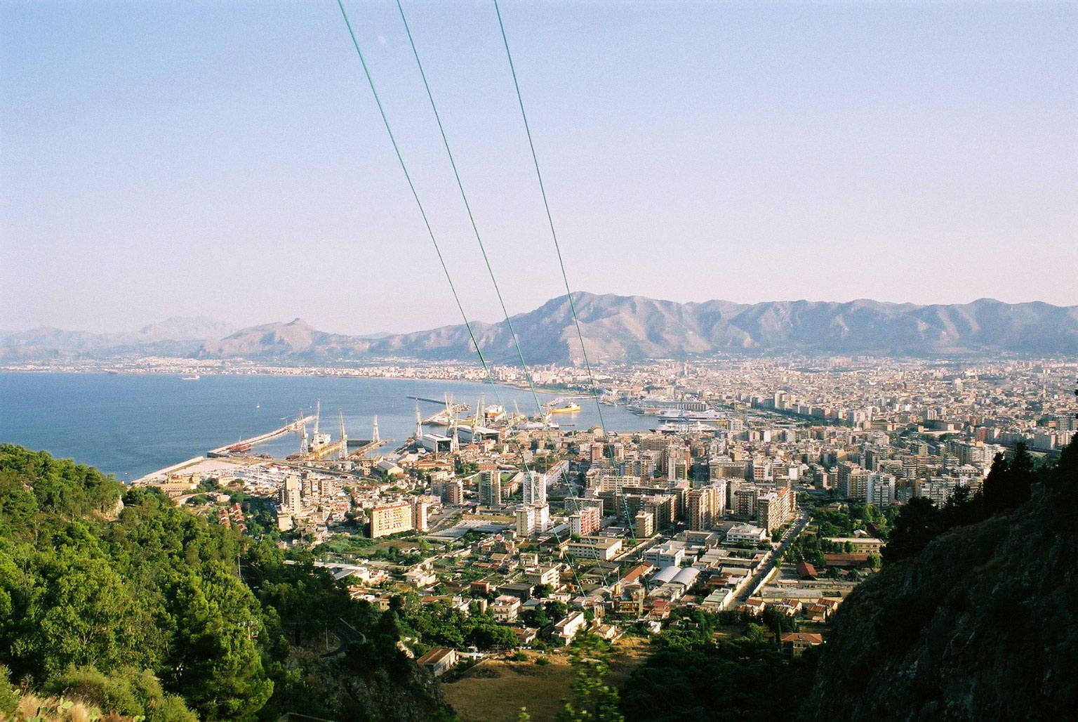 Palermo View to the harbour from Monte Pellegrino